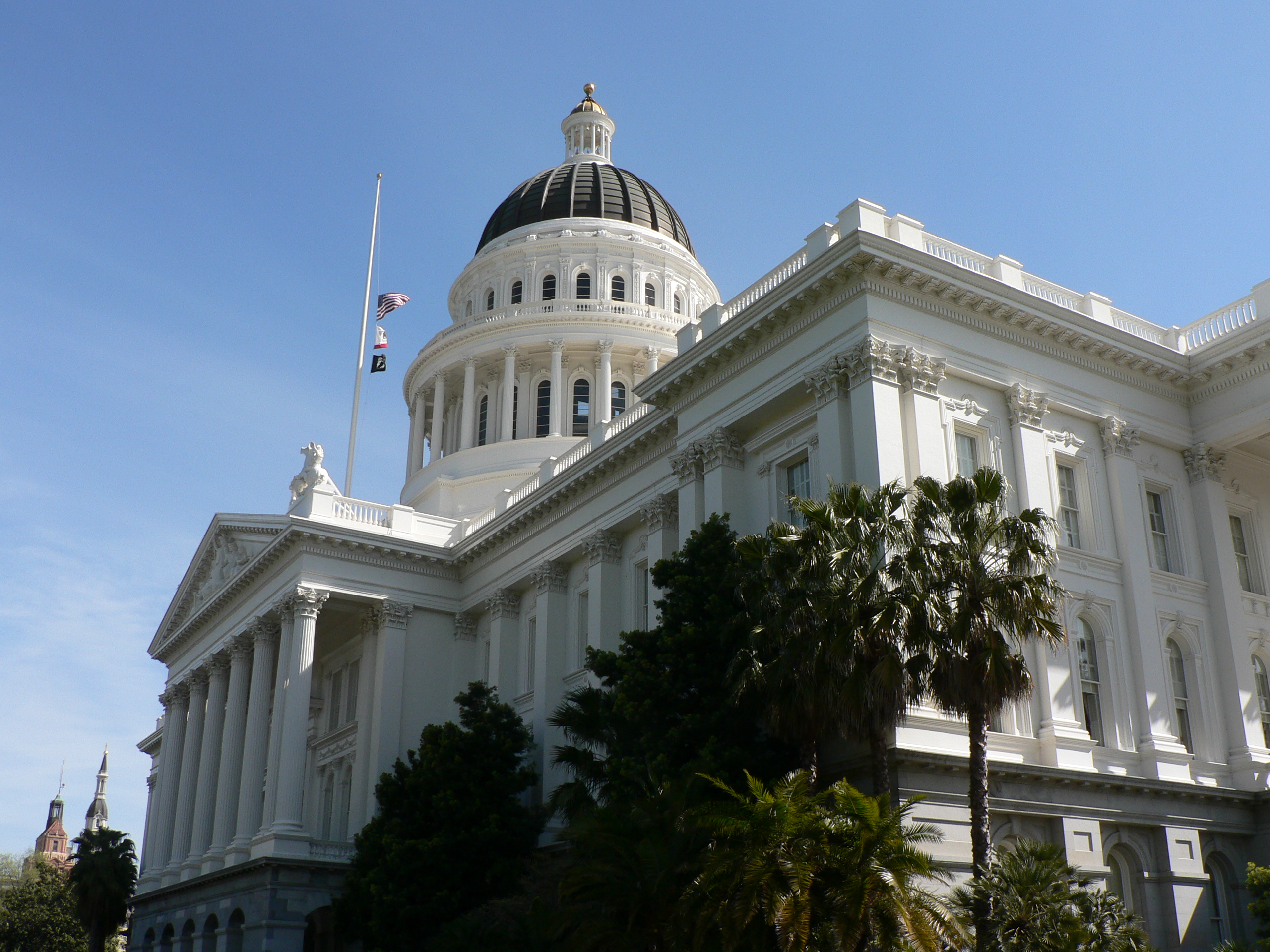 The California State Capitol in Sacramento